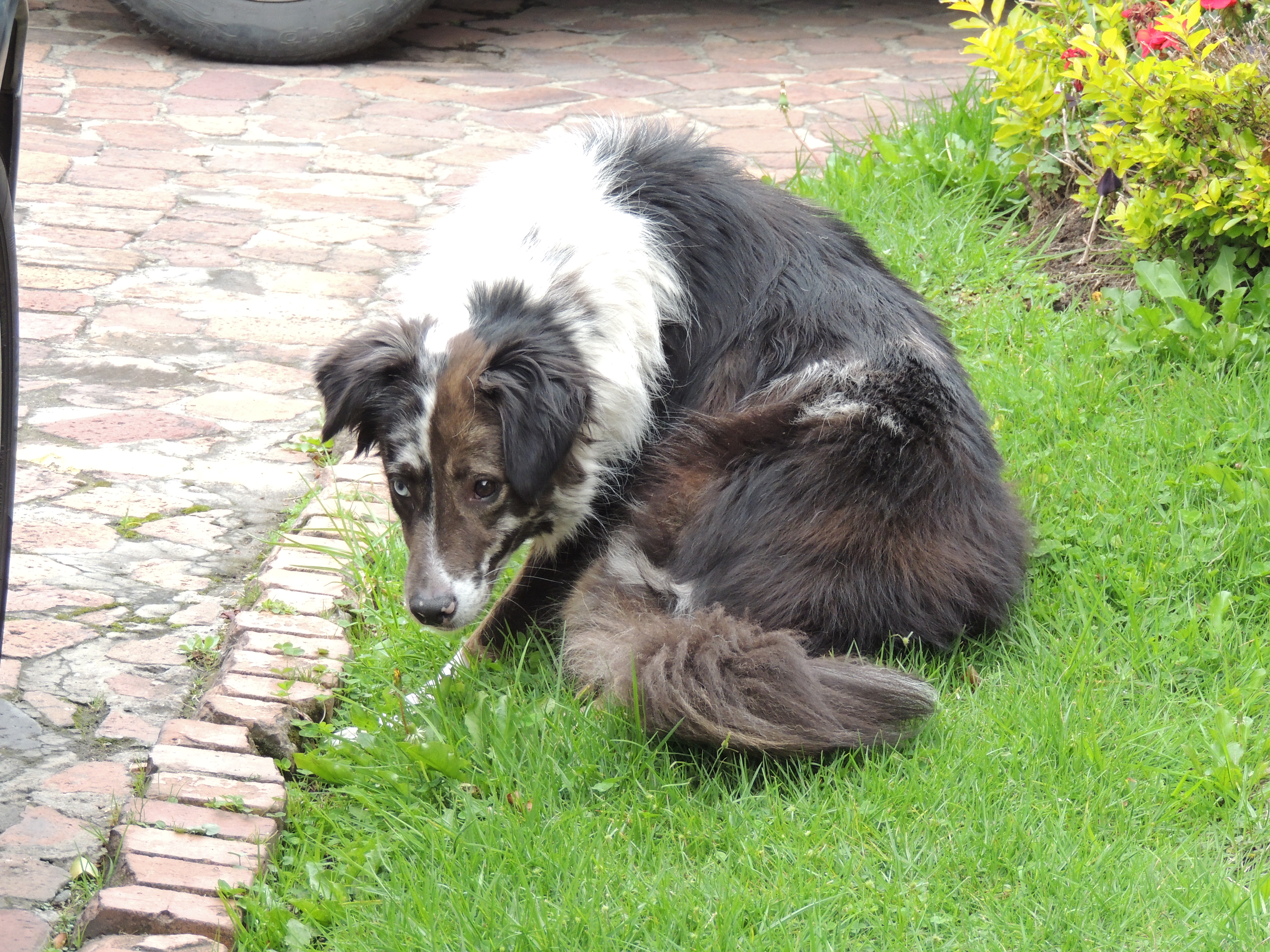 Mix-breed dog cautiously staring at a cat hidden under a car. This house dog encountered with a house cat at the park, as they stared at each other for a while, the cat showed itself defensive and hid under a car, whilst the dog was curious and also kind of frightened.